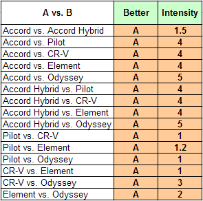 Part of a series of images to illustrate an article on the Analytic Hierarchy Process